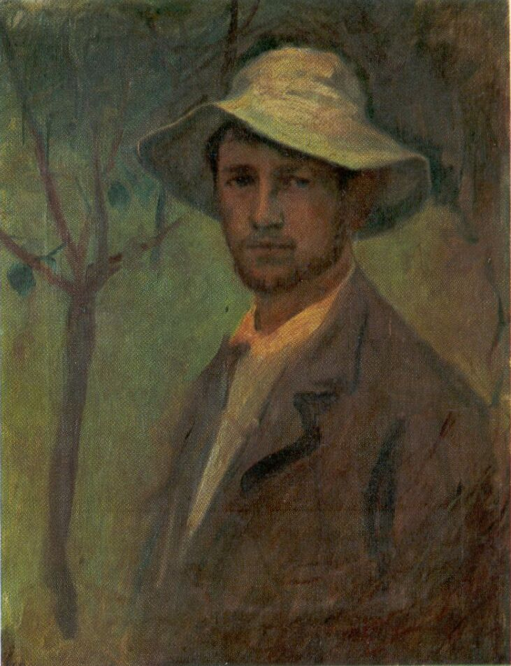 Self-portrait